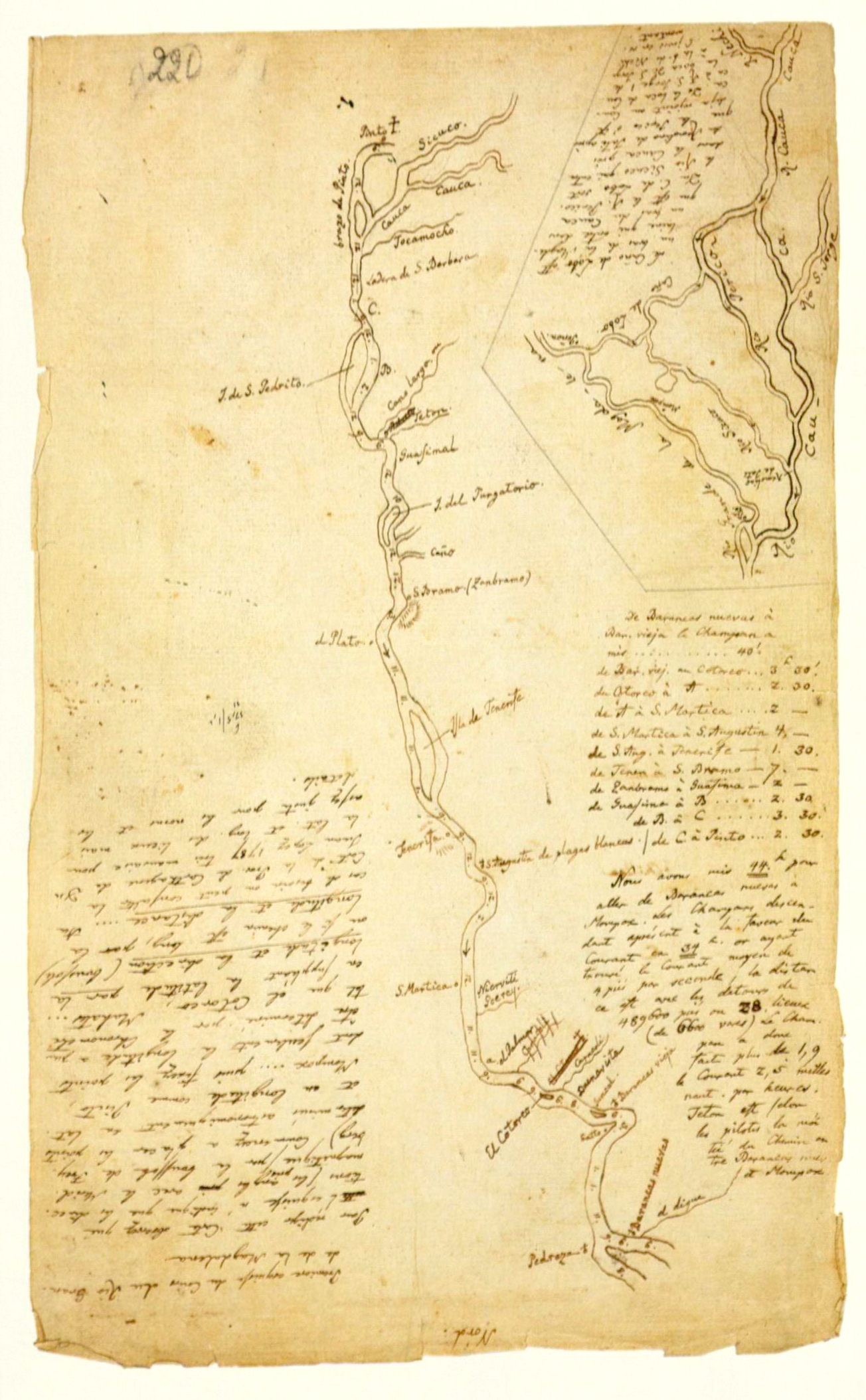 first map of the Rio Grande de la Magdalena, Colombia - south is to the top of the page